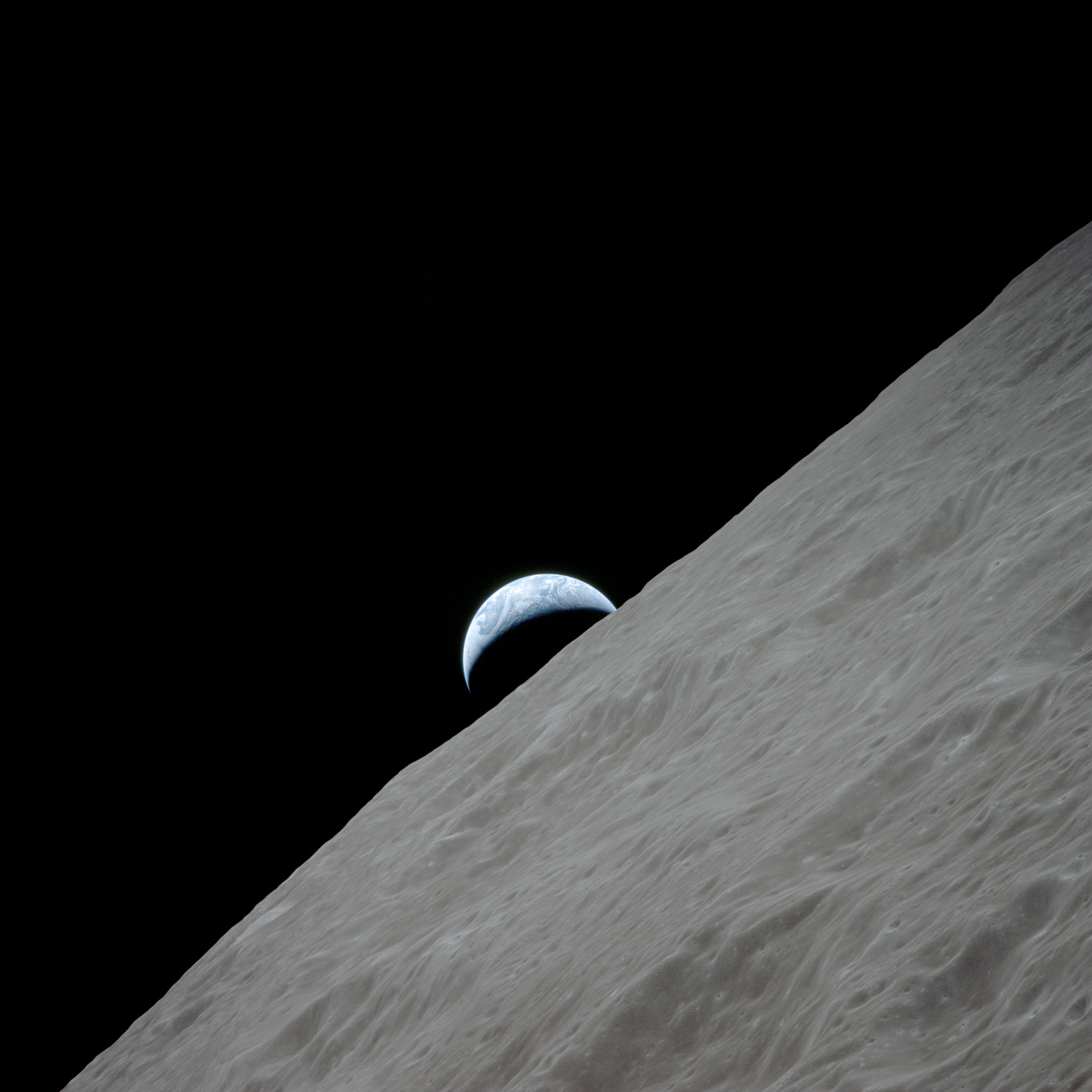 The crescent Earth rises above the lunar horizon in this spectacular photograph taken from the Apollo 17 spacecraft in lunar orbit during National Aeronautics and Space Administration's (NASA) final lunar landing mission in the Apollo program. While astronauts Eugene A. Cernan, commander, and Harrison H. Schmitt, lunar module pilot, descended in the Lunar Module (LM) "Challenger" to explore the Taurus-Littrow region of the moon, astronaut Ronald E. Evans, command module pilot, remained with the Command and Service Modules (CSM) "America" in lunar orbit. View of the crescent Earth rising above the lunar horizon over the Ritz Crater. Image taken during the Apollo 17 mission on Revolution 66. Original film magazine was labeled PP. Film type was SO-368 Color Ektachrome MS CEX,Color Reversal, 250mm lens., Longitude 98.2 East, Azimuth 264, Altitude 113 km.